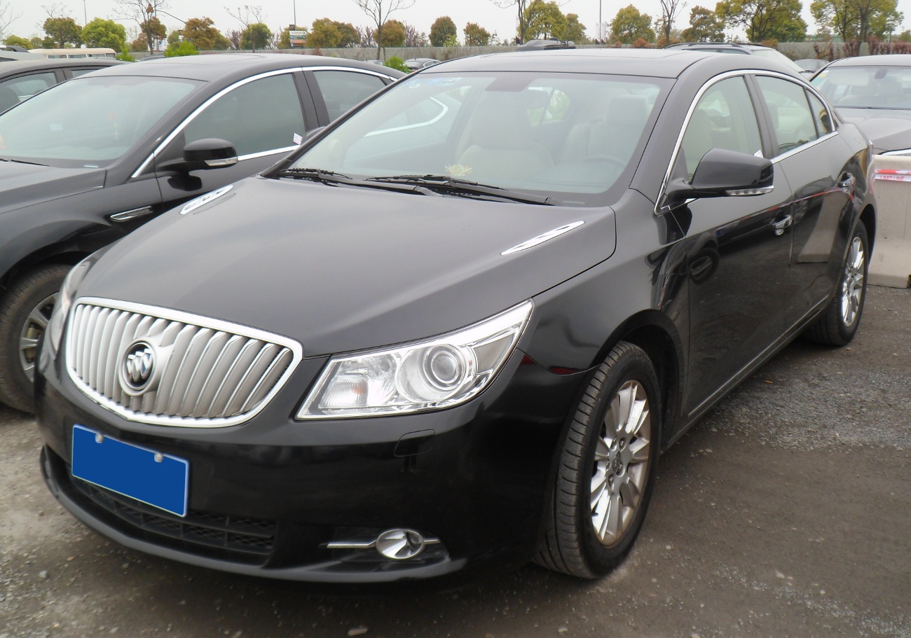 Buick LaCrosse II photographed in Anting, Shanghai municipality, China.